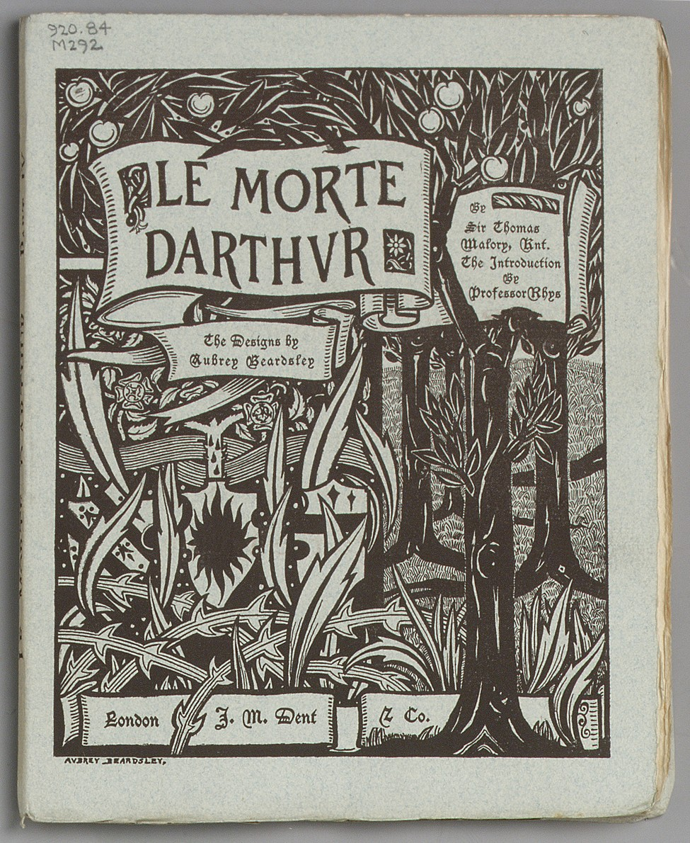 London: J. M. Dent and Co., 1893